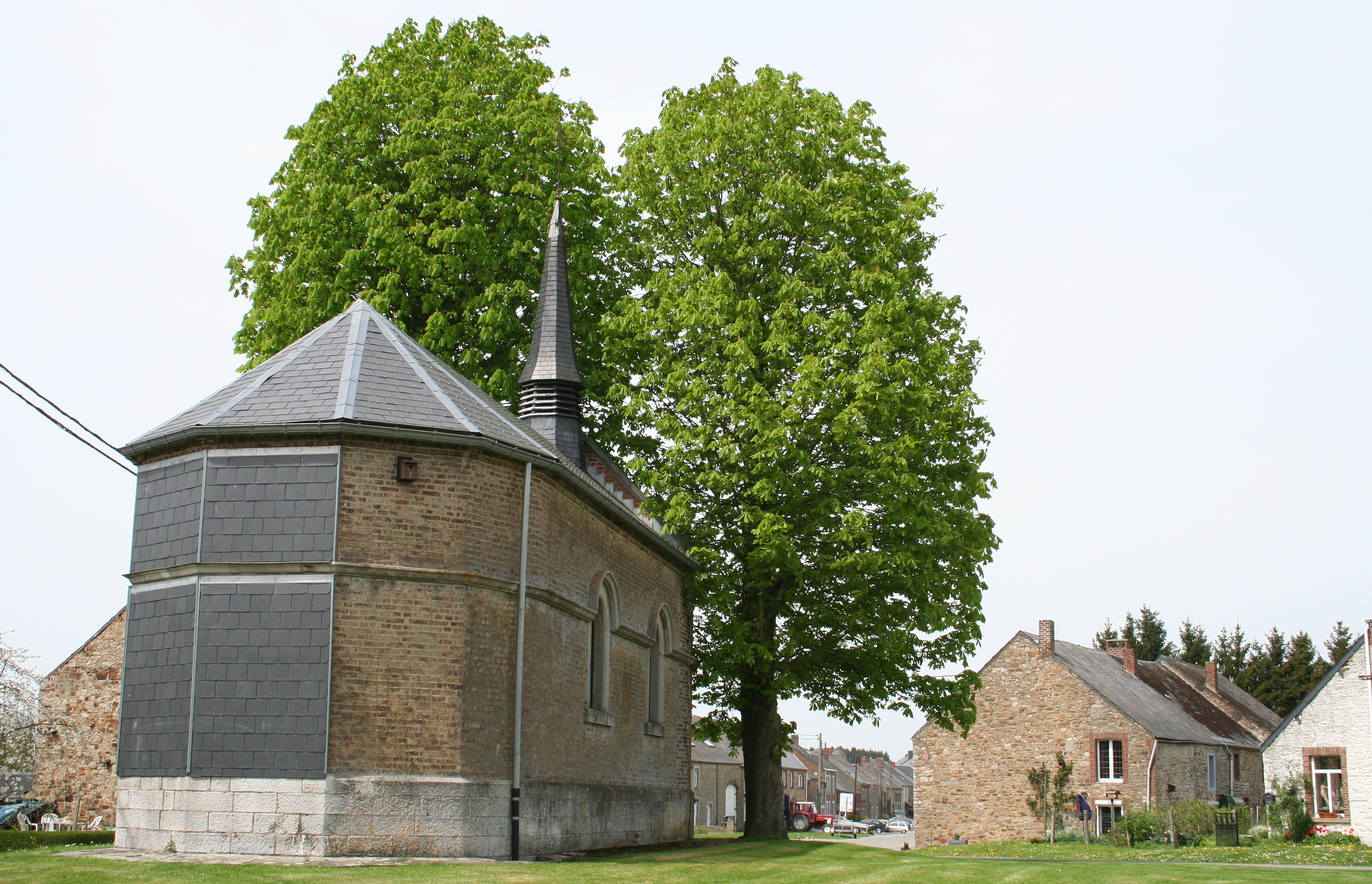 Felenne (Belgium), the St. Joseph chapel.